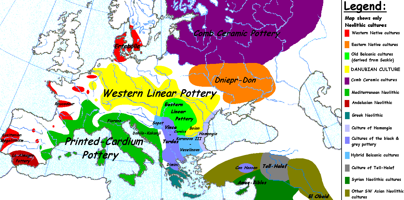 Map of the second half European Middle Neolithic at the apogee of Danubian and Mediterranean expansion. (The modification of the original map - Combed pottery, earlier notated as Pitted Ware, see history without respecting the color code of the legend is something that I am not fully satisfied with).